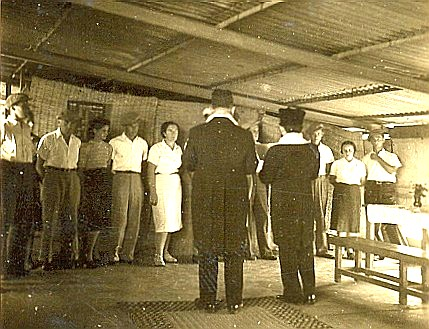 A rabbi and a cantor from Haifa married off six couples of the members. The wedding took place at the mitbach hapoalim.